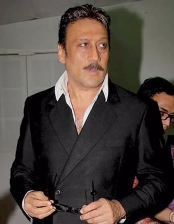 Jackie Shroff at Dr PL Tiwari's birthday bash